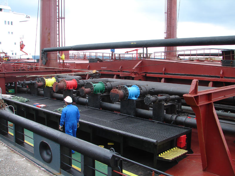 The Ore/Bulk/Oil carrier Maya in Brest. Manifolds are used for emptying oil.